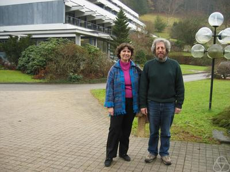 Catherine Goldstein, Jim Ritter, Oberwolfach 2005